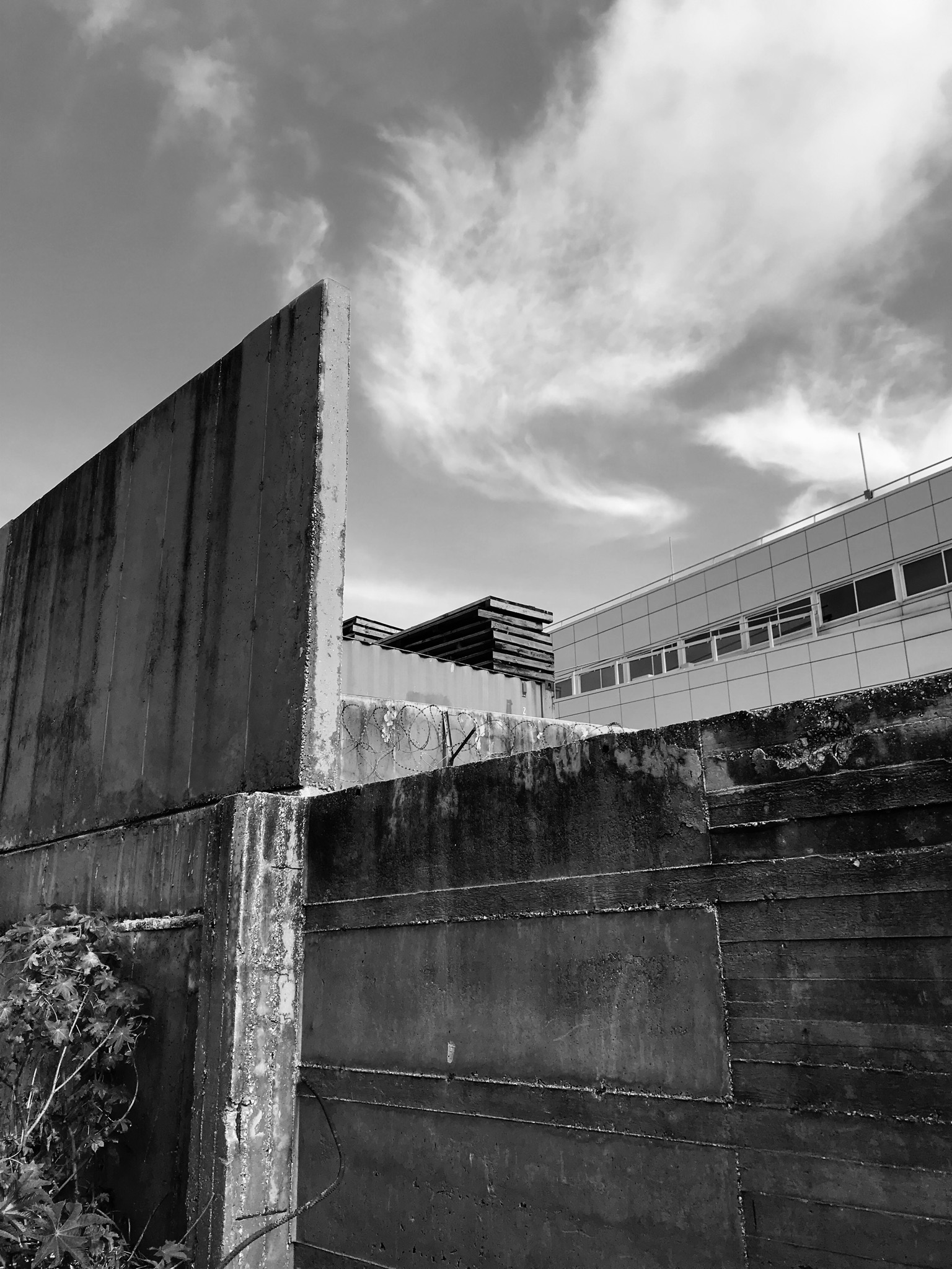 B&W